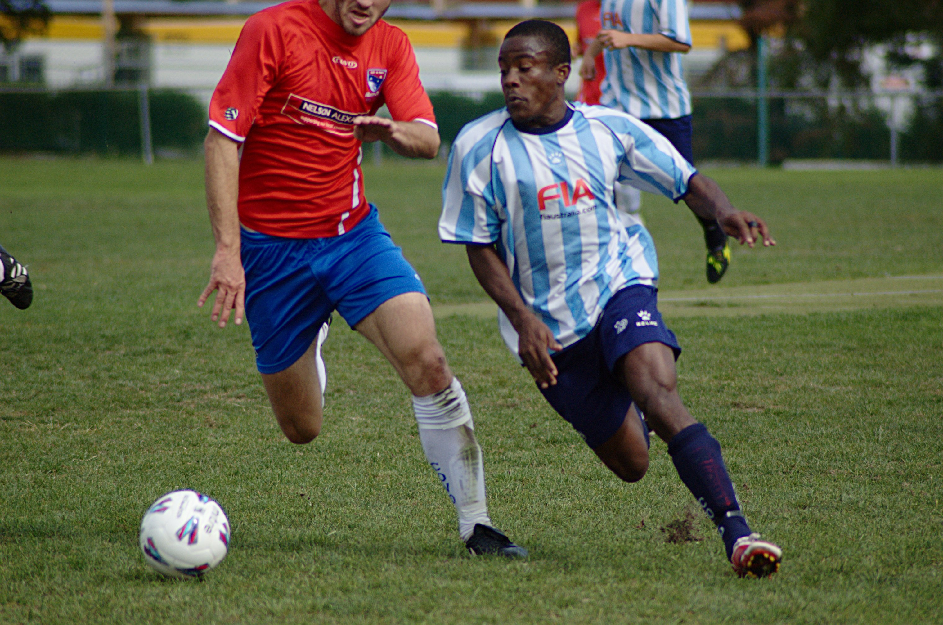 Monash University VS Fitzroy City (Seniors) (Round 2, Provisional 1, 2009 Season) Striker Munyaradzi Nyadzayo outruns the Fitzroy Defense.